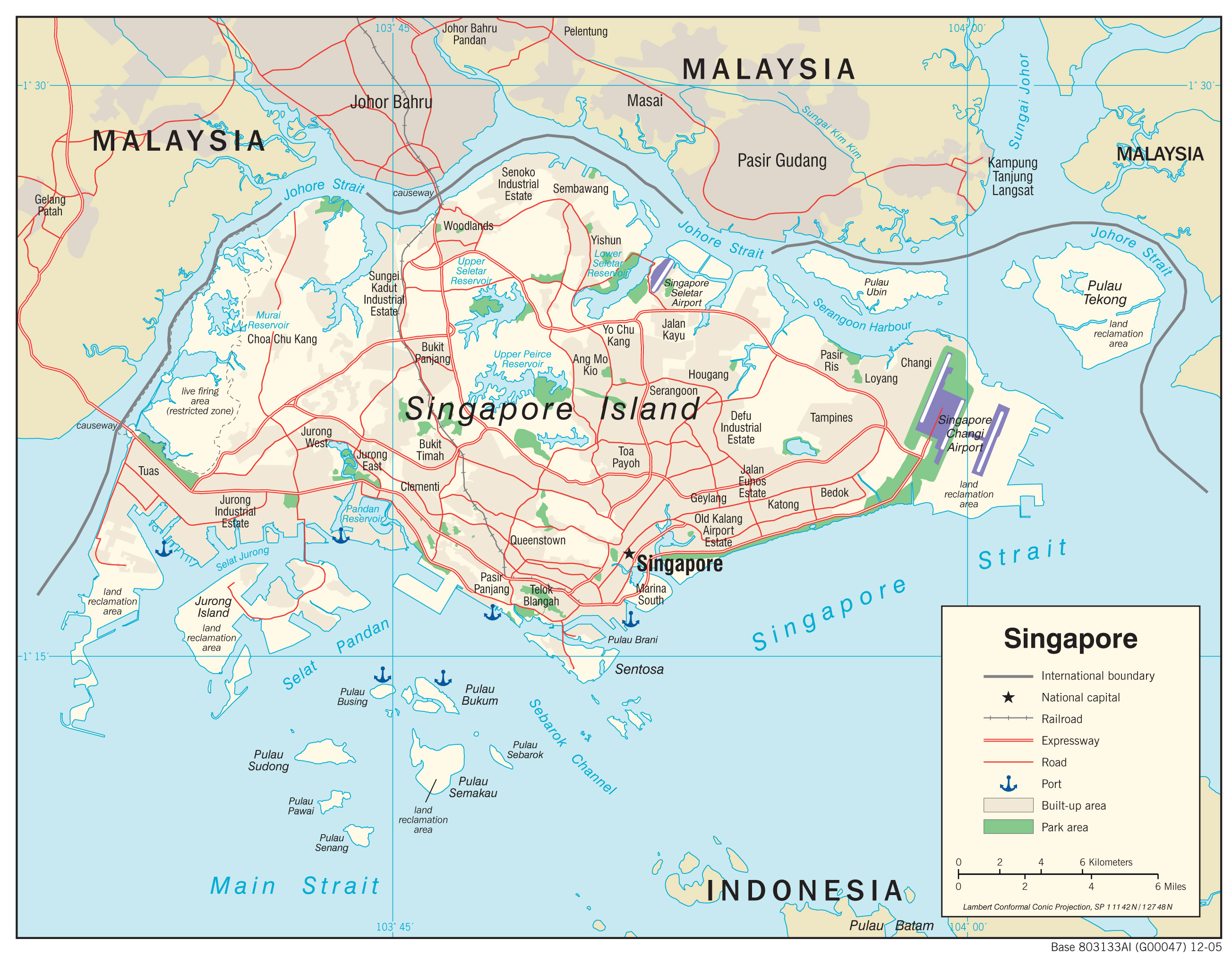 Transport system in Singapore, 2005.